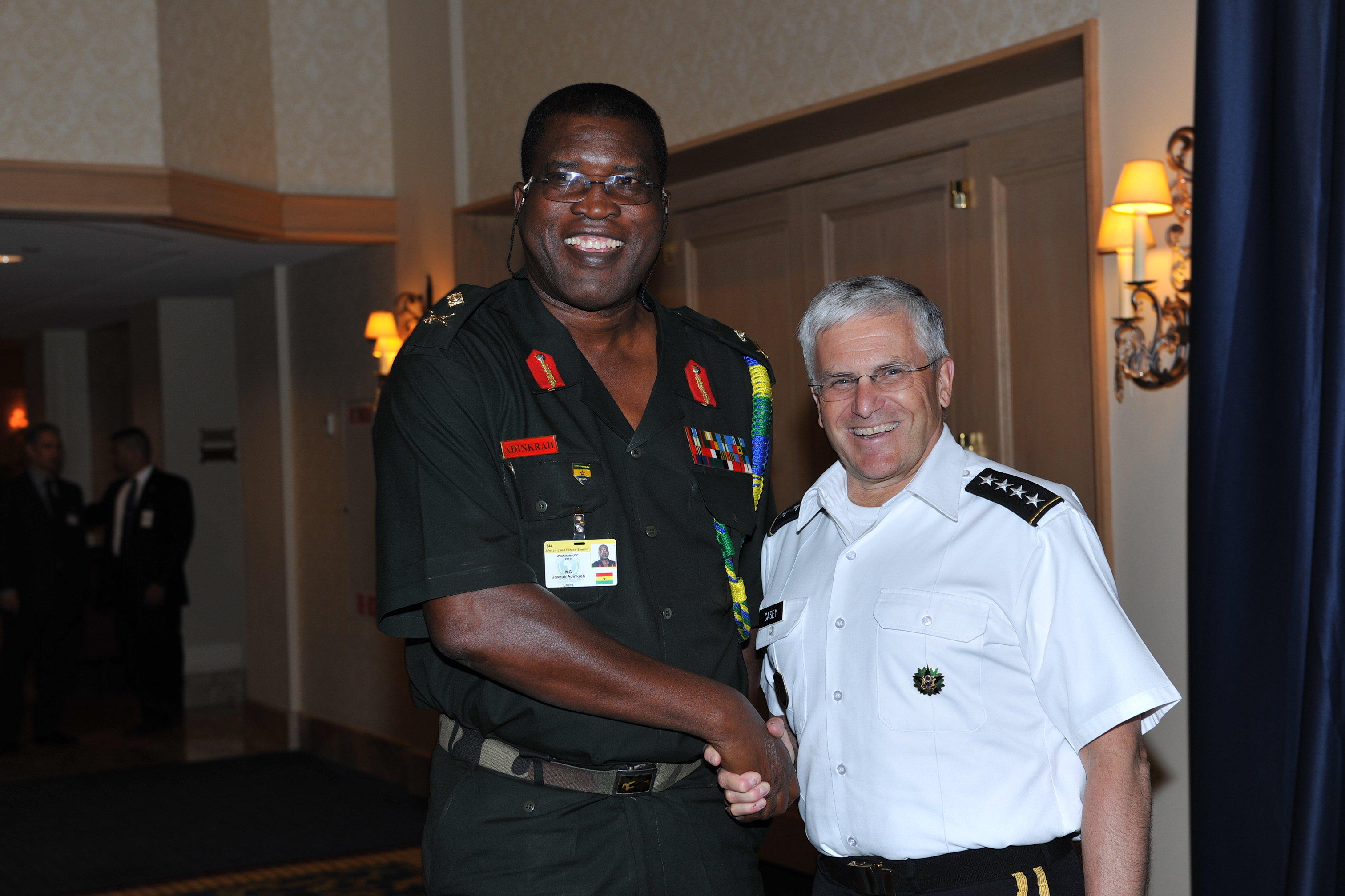 Gen. George W. Casey Jr., U.S. Army Chief of Staff, welcomes delegates to the African Land Forces Summit, May 10, 2010. U.S. Army photo by Barbara Romano WASHINGTON, D.C. – Gen. George W. Casey, U.S. Army Chief of Staff, on Monday night welcomed nearly 100 senior military leaders from nations across the African continent to the inaugural African Land Forces Summit. Casey told the leaders the five-day summit is the latest in a series of efforts to assist African nations as they work to form partnerships to foster stability and peace on the continent. He said the establishment of the U.S. Africa Command in 2007 and then U.S. Army Africa last year is “an indicator of our long-term interest in the militaries on the African continent.” The summit theme is “Adapting Land Forces to 21st Century Security Challenges.” Casey outlined the threats the U.S. Army expects to face in the coming years. “Two trends that worry me most are weapons of mass destruction in the hands of terrorist organizations and safe havens -- countries and parts of countries where the local government can’t or won’t deny their countries to terrorists,” Casey said. The general said the United States must also expect to face conflicts involving “hybrid threats,” a terrorist organization that is supported by one or more sovereign nations. “Hezbollah is a good example of what a hybrid threat can be,” he said. “It’s a mix of conventional irregular, terrorist and criminal capabilities that are organized and employed asymmetrically. That’s what we think we’re going to see.” To prevail against such threats, the United States must form strong alliances with other nations. The Land Forces Summit is a continuation of that kind of effort, he said. “We’re here to listen and we’re here to partner,” Casey said. “We plan to be at this for awhile.” To learn more about U.S. Army Africa visit our official website at Official Twitter Feed: Official Vimeo video channel